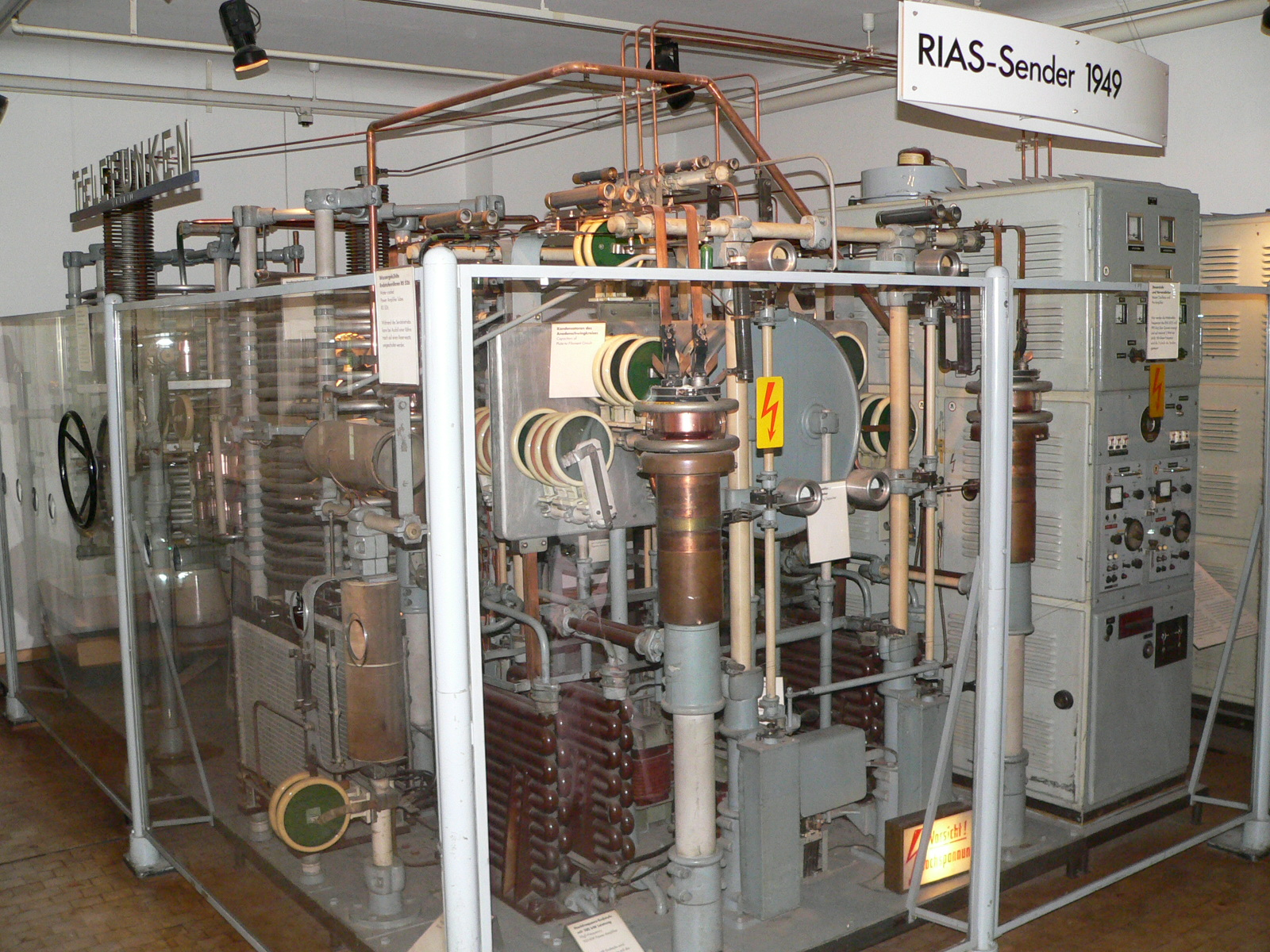 Radio transmitter of 1949 in the museum Deutsches Technik Museum Berlin, Germany